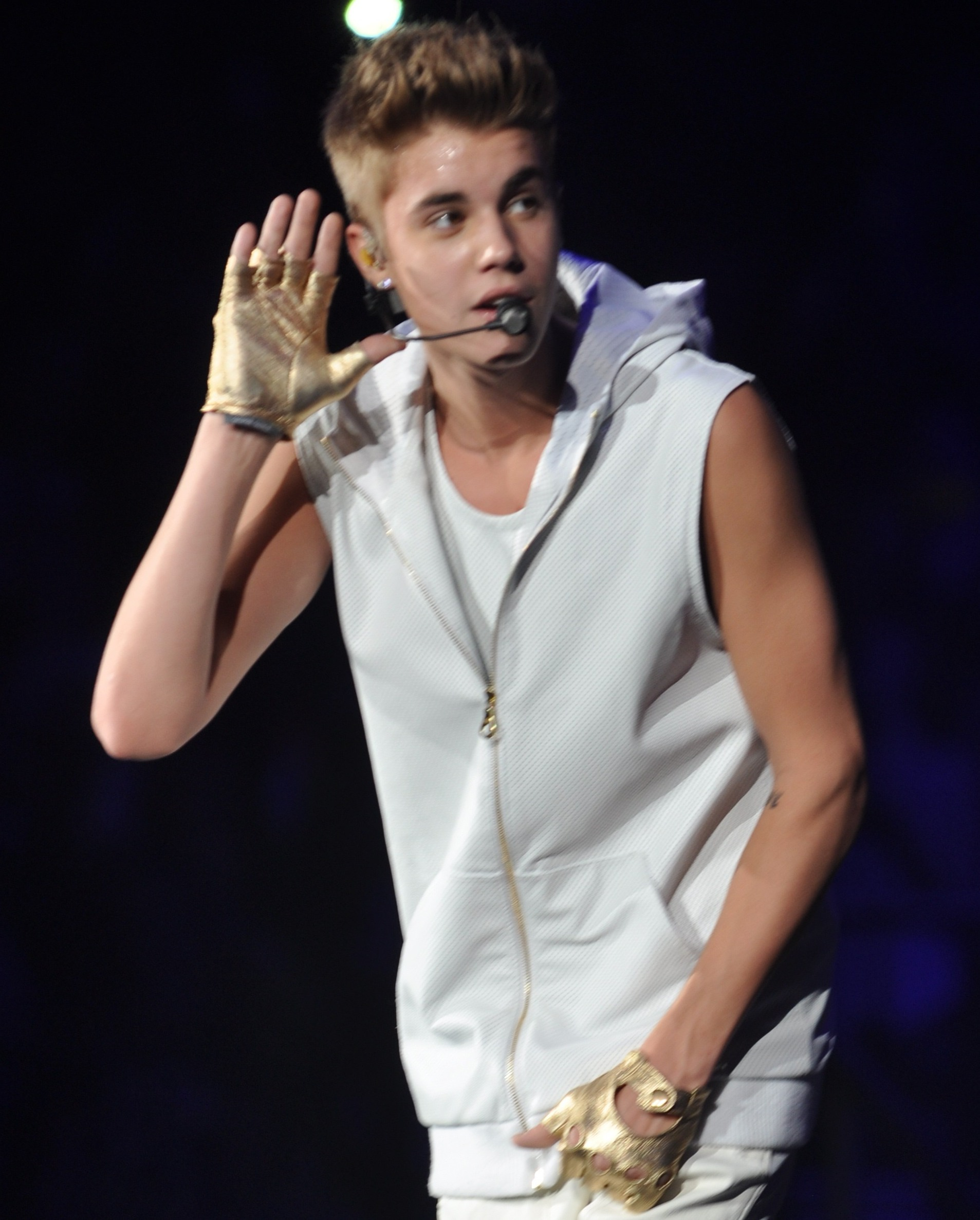 Justin Bieber performing Believe Tour in October 20, 2012.